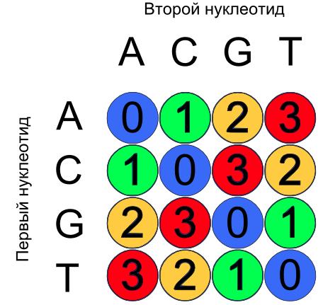 SOLiD